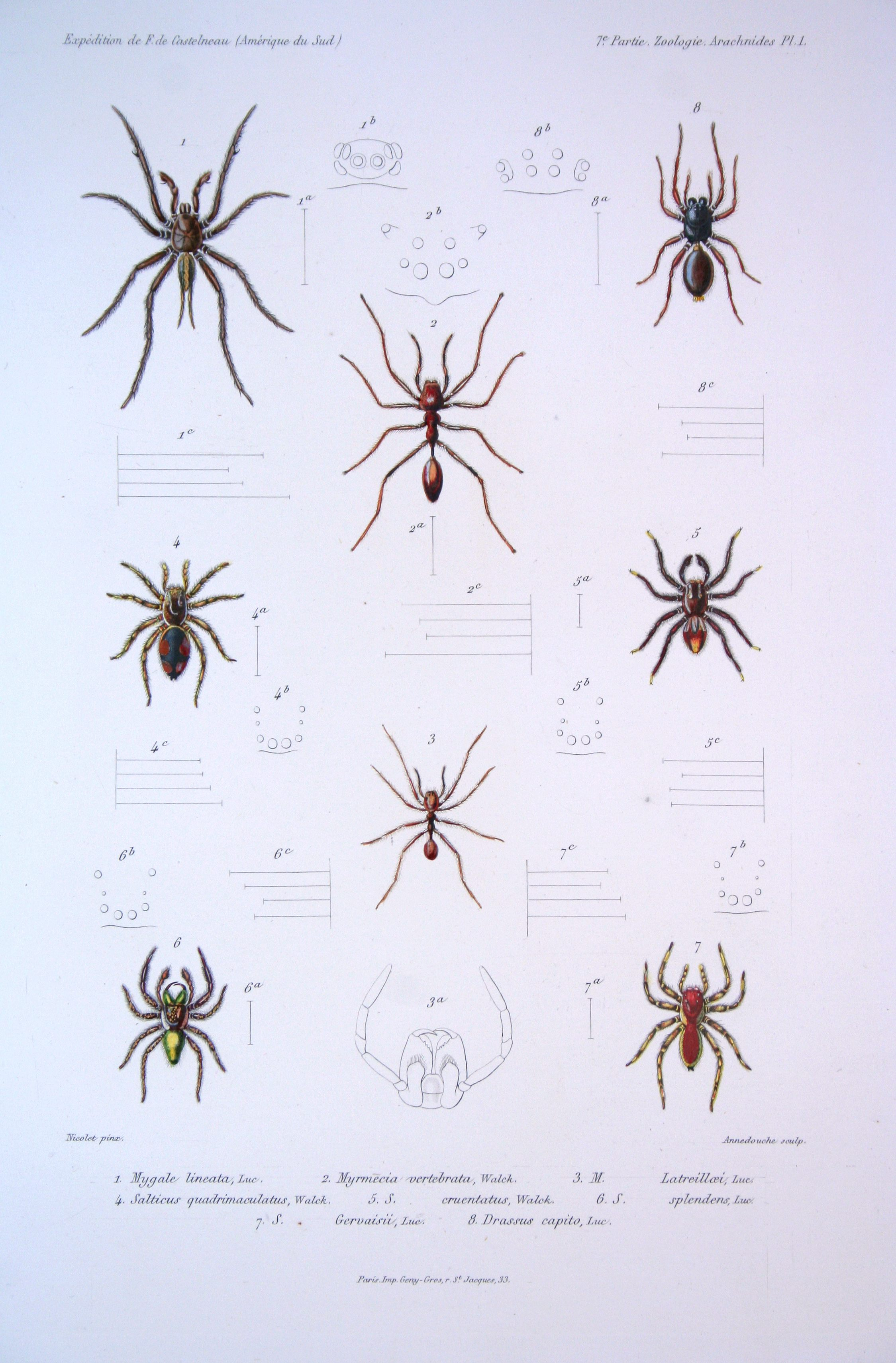 Mygale lineata Luc. = Diplura lineata (Lucas, 1857) (1a: length, 1b: eye pattern, 1c: length of legs) Myrmecia vertebrata Walck. = Myrmecium vertebratum (Walckenaer, 1837) (2a: length, 2b: eye pattern, 3c: length of legs) M[yrmecia] Latreillæi Luc. = Myrmecium latreillei (Lucas, 1856) (3a: prosoma from below) Salticus quadrimaculatus Walck. = Phiale quadrimaculata (Walckenaer, 1837) (4a: length, 4b: eye pattern, 4c: length of legs) S[alticus] cruentatus Walck. = Phiale cruentata (Walckenaer, 1837) (5a: length, 5b: eye pattern, 5c: length of legs) S[alticus] splendens Luc. = "Salticus splendens" Lucas, 1857: nomen dubium, Salticidae sp. (6a: length, 6b: eye pattern, 6c: length of legs) S[alticus] Gervaisii Luc. = "Salticus gervaisi" Lucas, 1857: nomen dubium, Salticidae sp. (7a: length, 7b: eye pattern, 7c: length of legs) Drassus capito Luc. = Corinna capito (Lucas, 1856) (8a: length, 8b: eye pattern, 8c: length of legs)